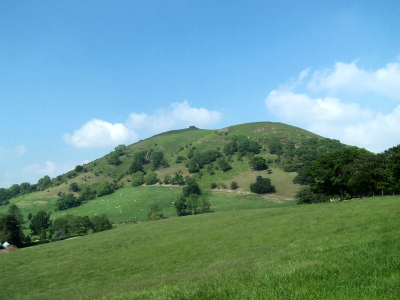 Looking up Caer Caradoc from towards Church Stretton taken by kev747